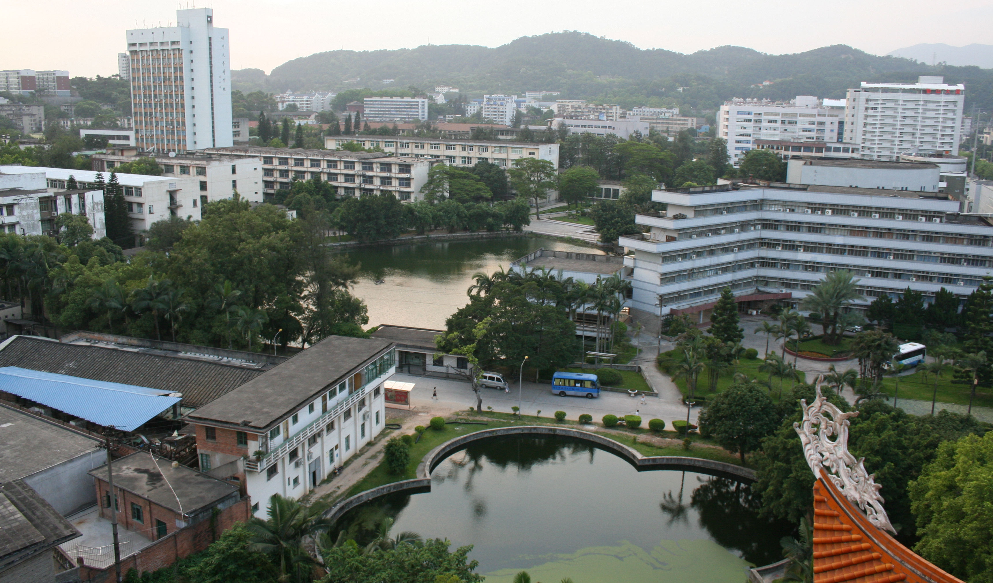 Fuzhou, China